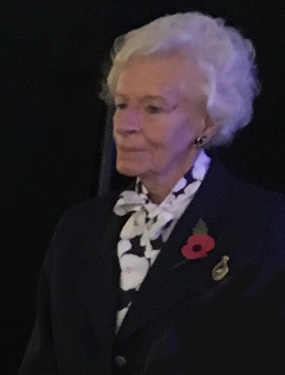 The Air Transport Auxiliary pilot Mary Ellis (1917 – 24 July 2018) in November 2016. Ellis was at the Royal Albert Hall with fellow ATA pilot Joy Lofthouse for an appearance in the 2016 Royal British Legion Festival of Remembrance.